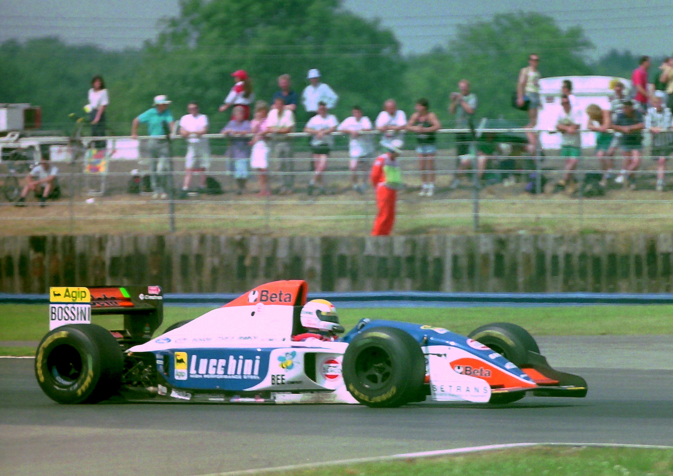 Pierluigi Martini - Minardi M194 at the 1994 British Grand Prix